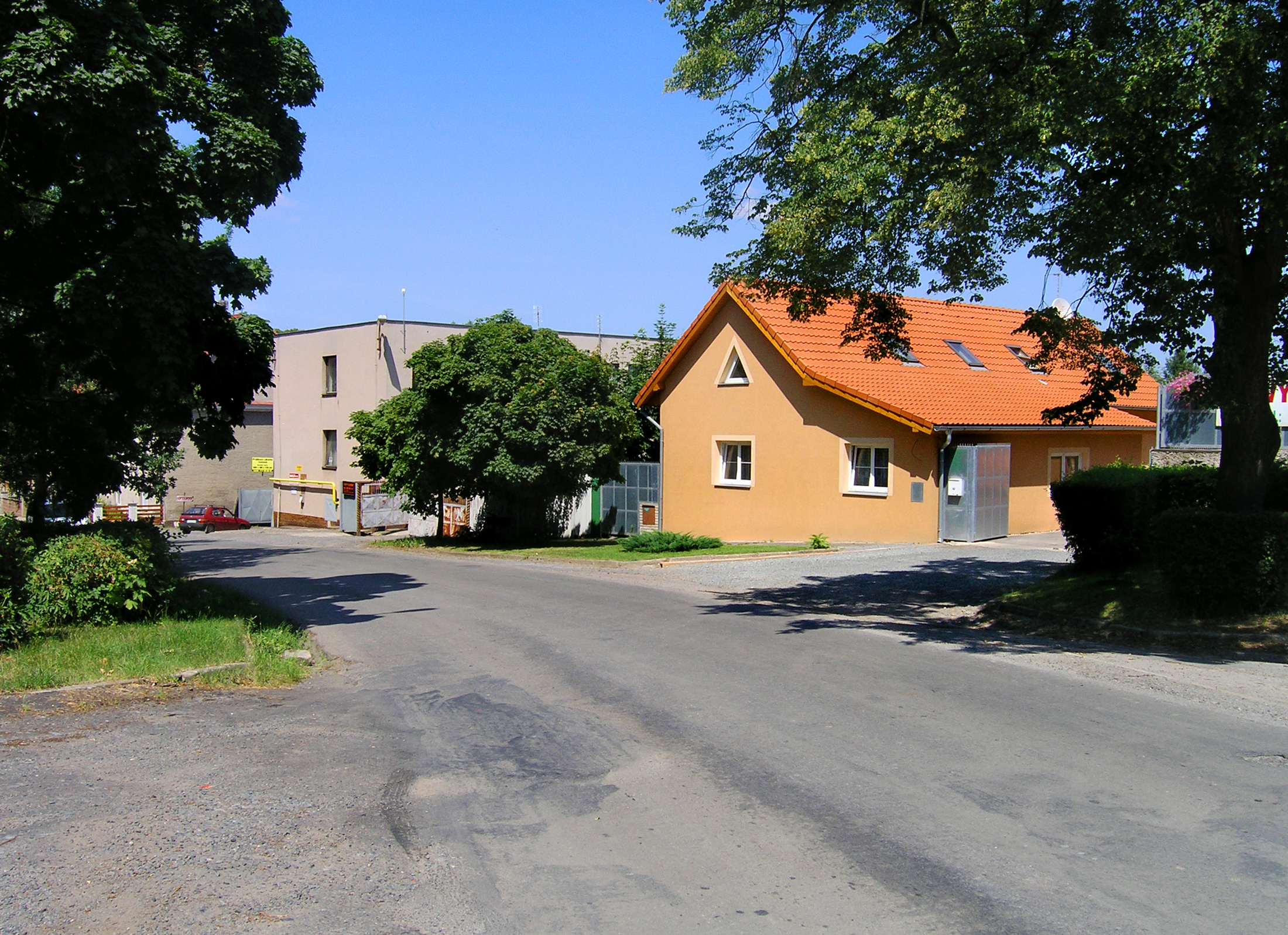 Street to Brandýs nad Labem in Svémyslice, Czech Republic